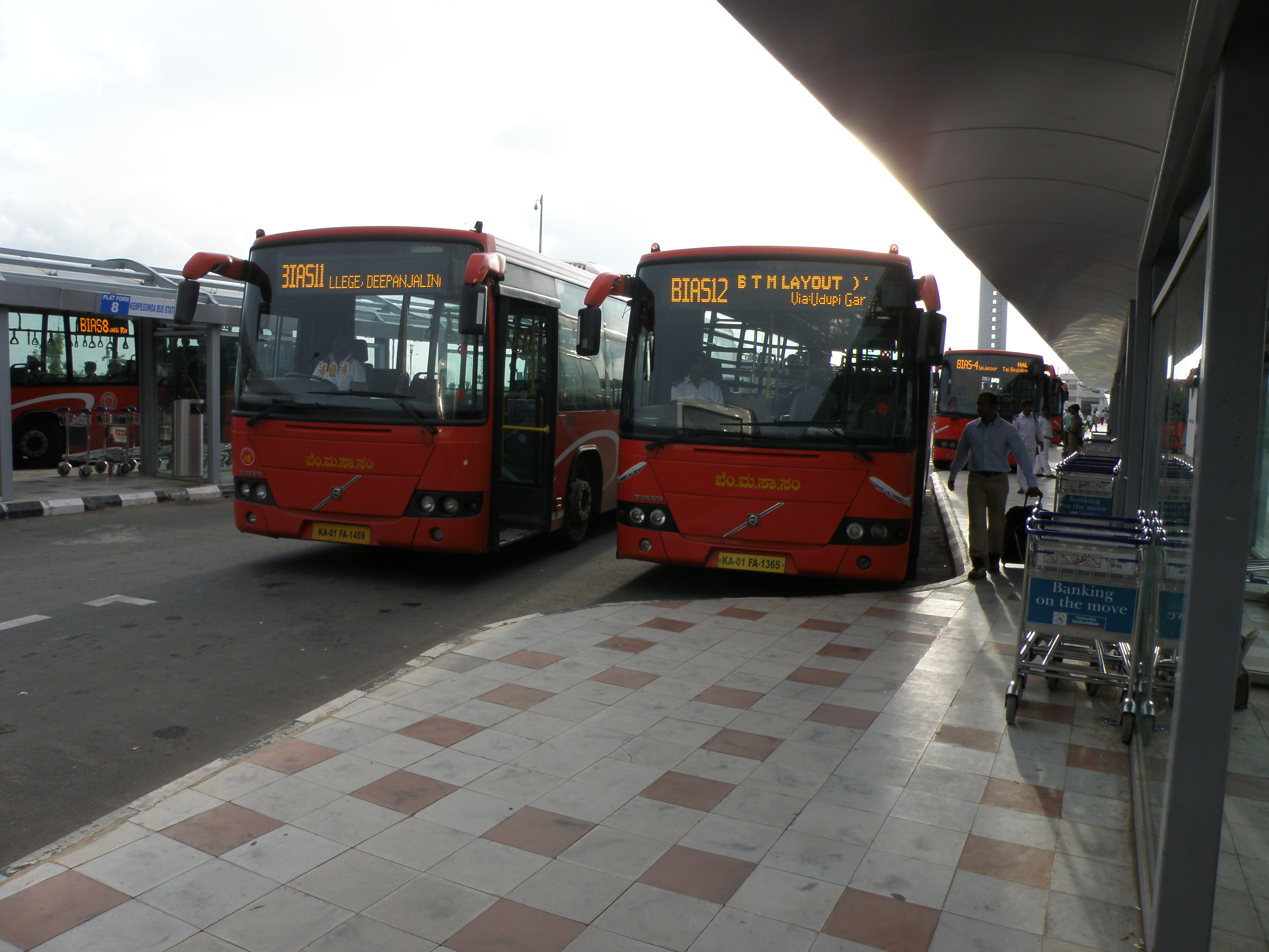 Bangalore city buses at Bengaluru International Airport.